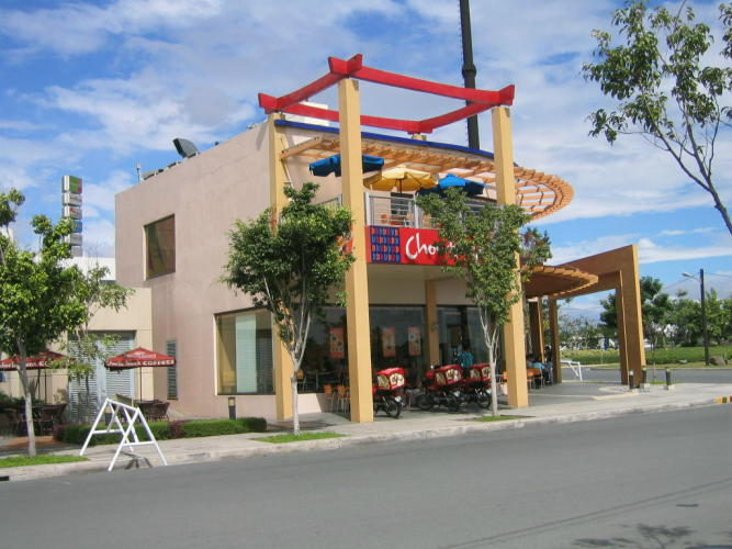 A Picture of a Typical Chowking Restaurant